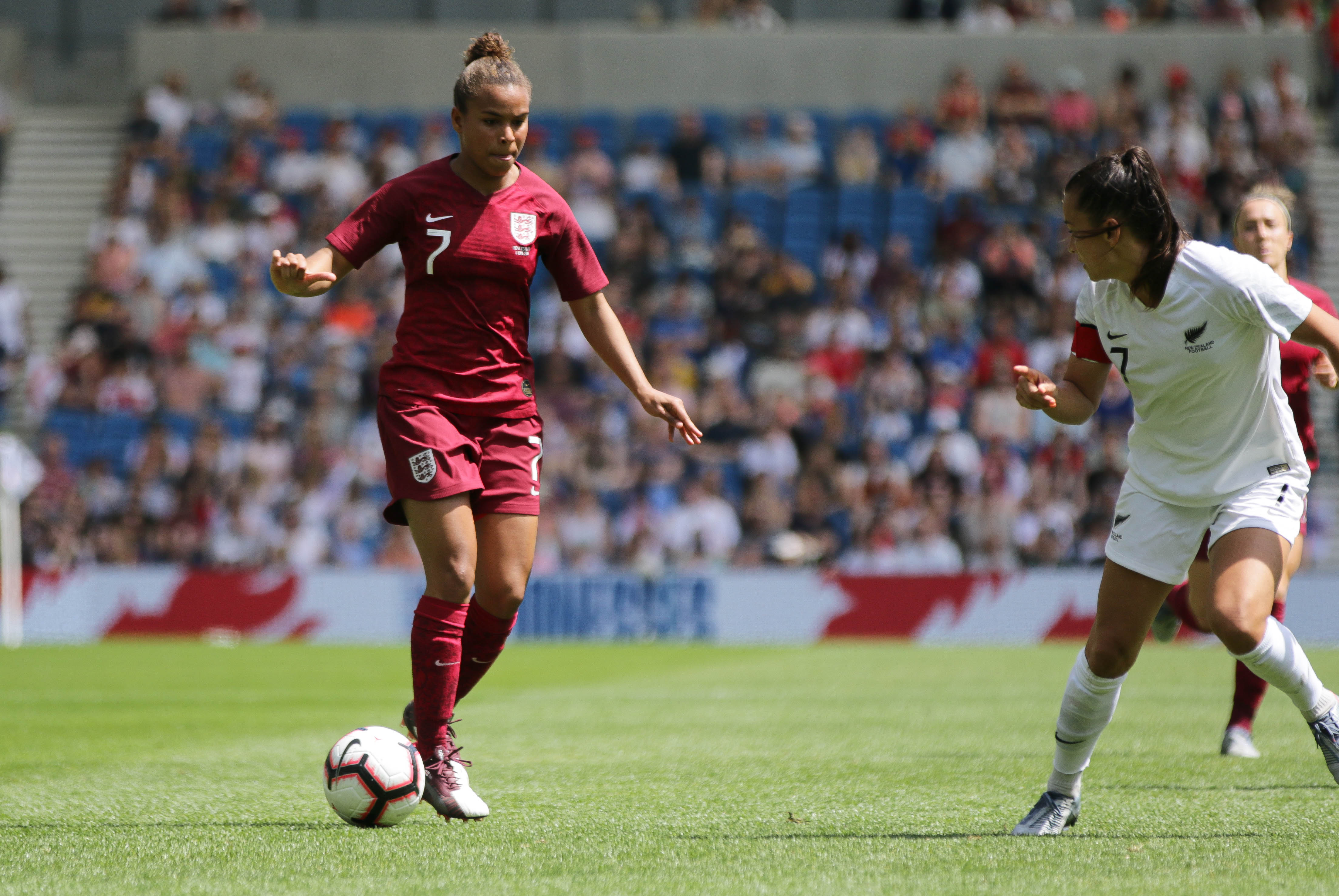 England Women 0 New Zealand Women 1 01 06 2019-589.jpg